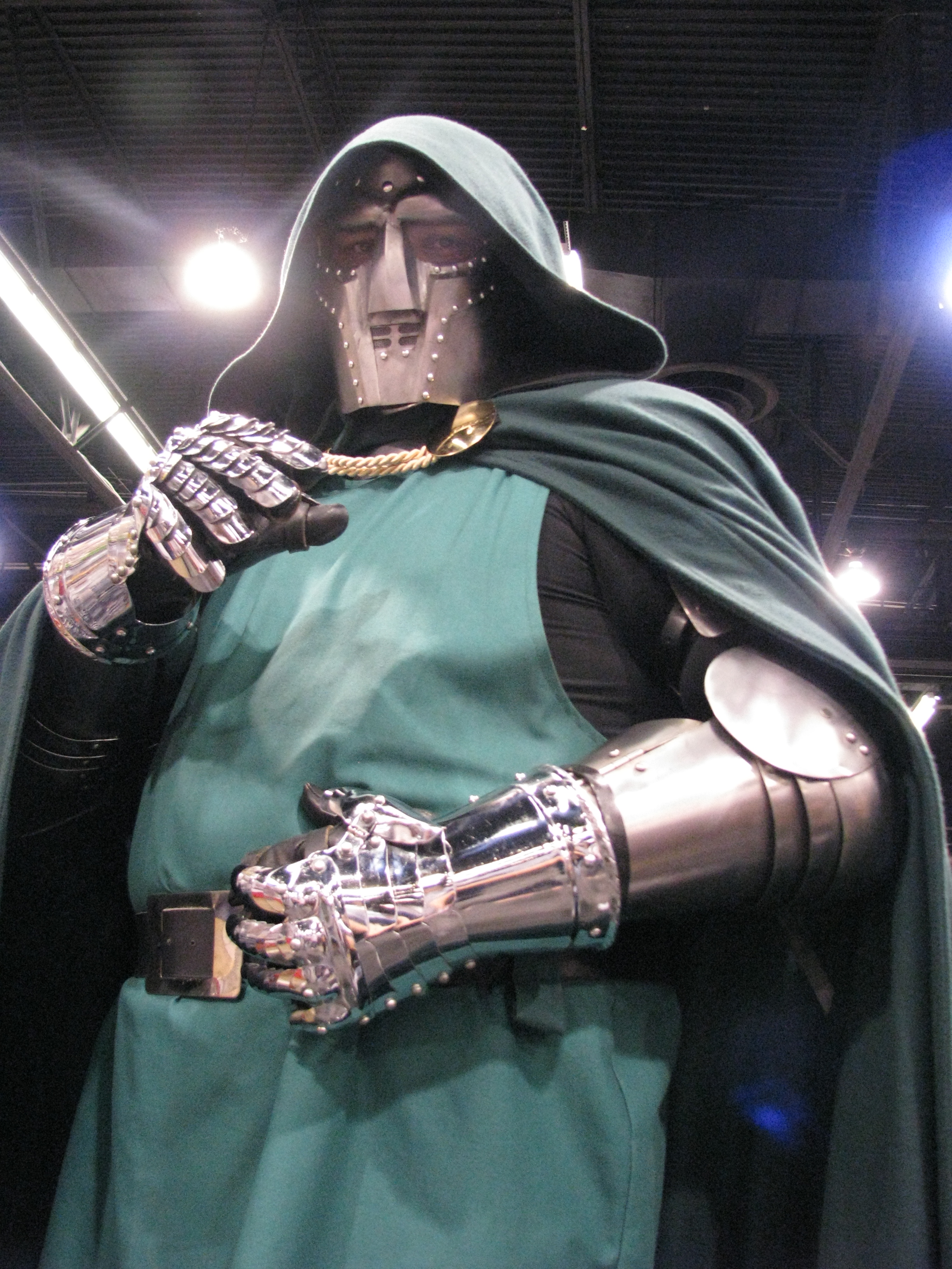 WonderCon 2014 - Doctor Doom cosplay